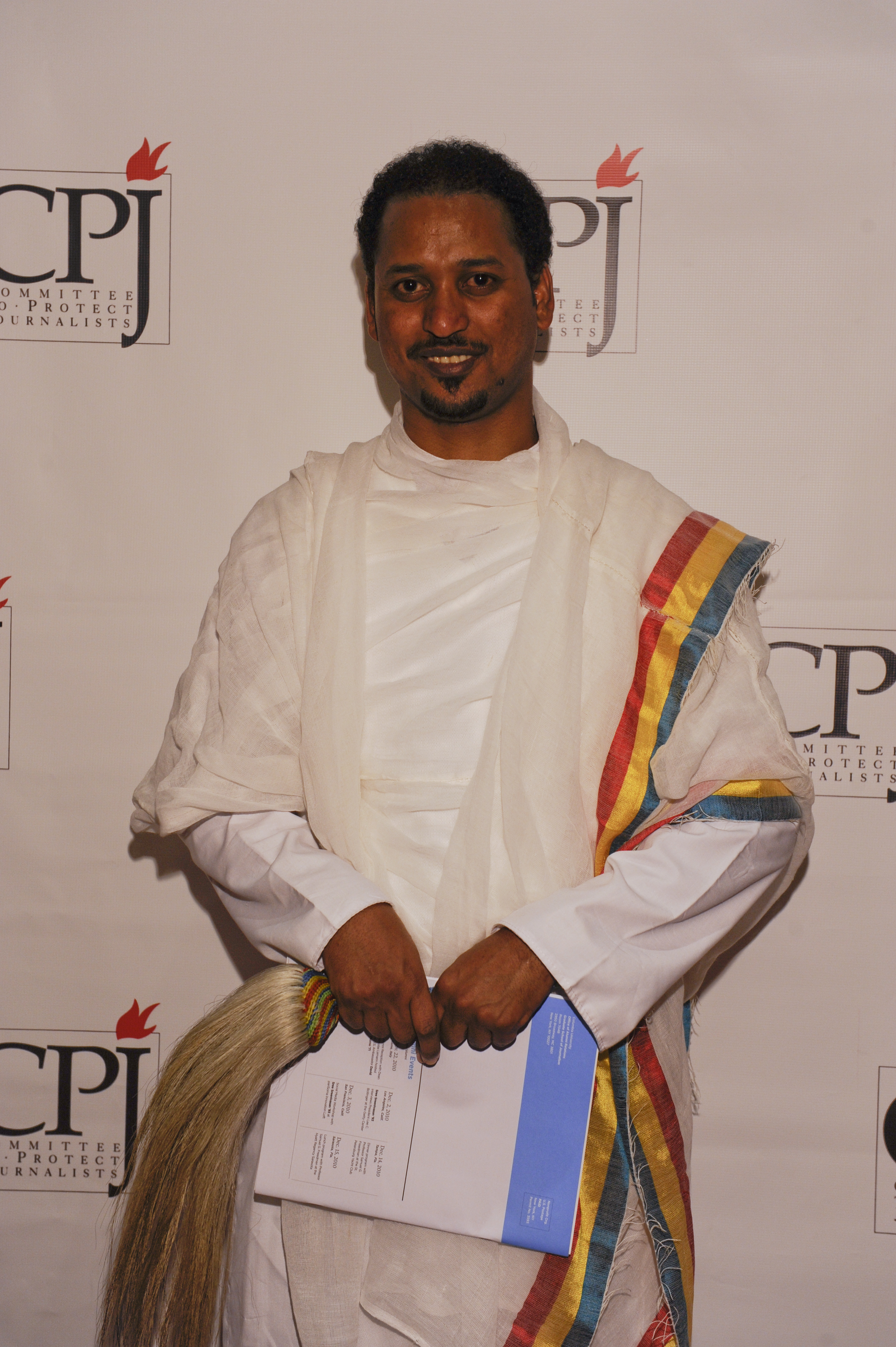 Dawit Kabede, winner of the International Press Freedom Award of the Committee to Protect Journalists